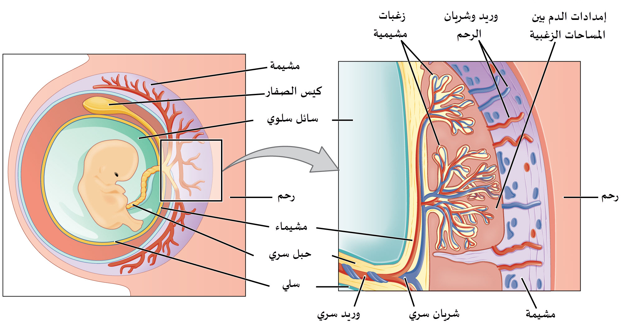 Placenta